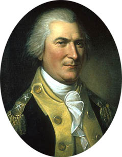 Arthur St. Clair - a general in the Continental Army during the American Revolution, territorial governor of Ohio and the ninth President of the Continental Congress